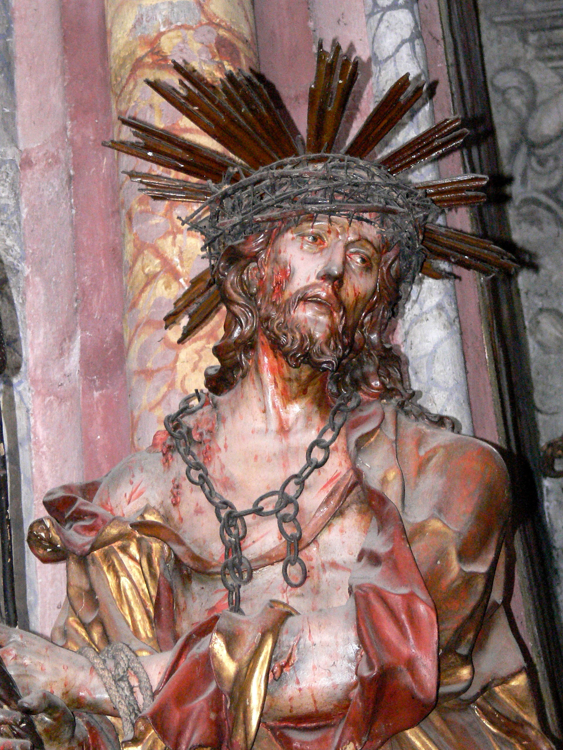 Sankt Wolfgang im Salzkammergut parish church ( Upper Austria ). Man of sorrows ( 1706 ) by Meinrad Guggenbichler - detail.